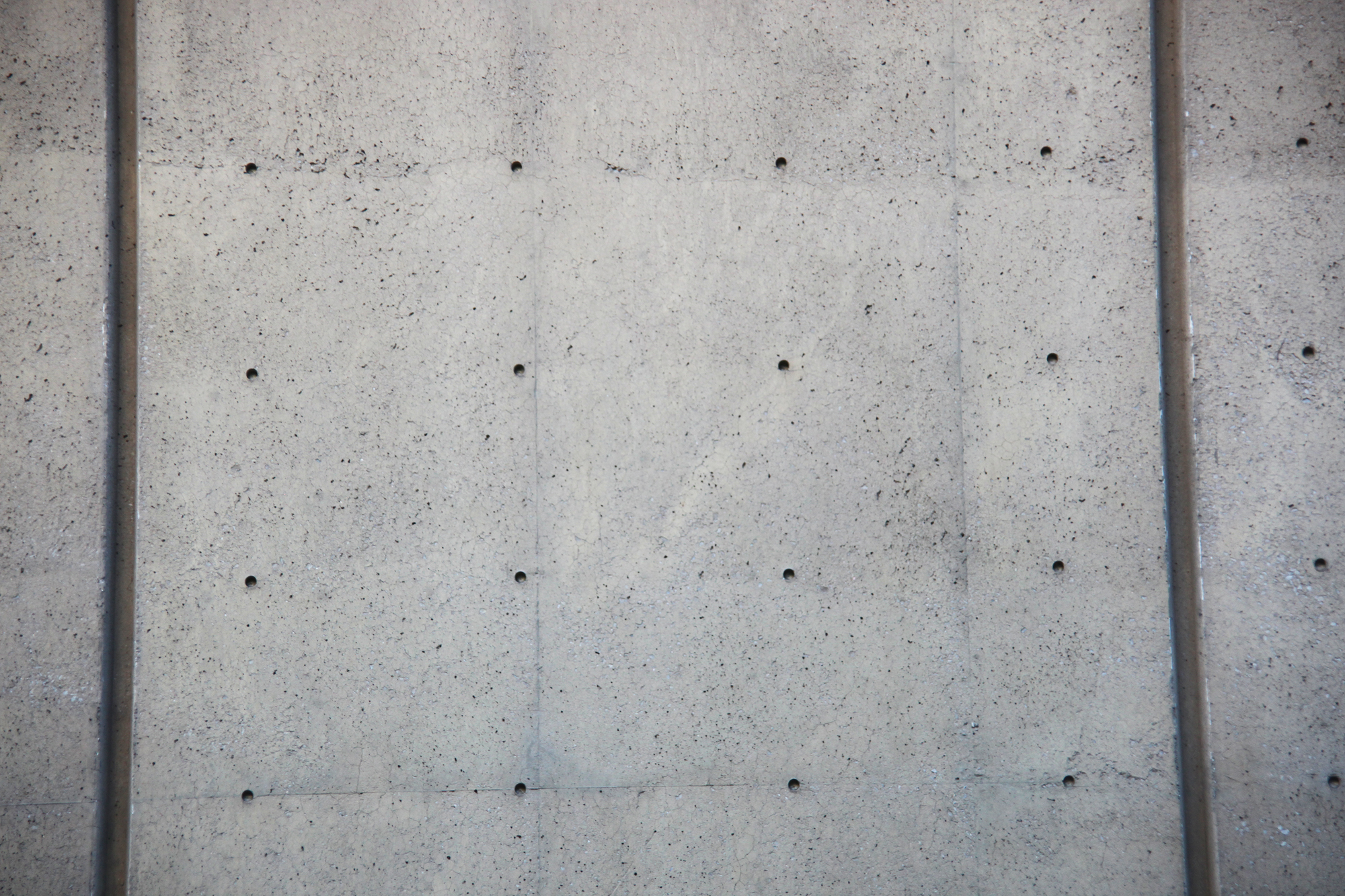 Looking west at the east facade on the 9th Street NW side of the J. Edgar Hoover Building (the headquarters of the Federal Bureau of Investigation) in Washington, D.C., in the United States. The office building, constructed in the Brutalist style, began construction in 1967 and was completed in 1975. Brutalism is an architectural style that refers to the French language term "beton brut" -- or "raw concrete." Many architects were impressed with advances in constructution techniques which allowed bare concrete to remain visible without adding granite or marble cladding, or polishing the concrete (both very expensive to do). The FBI building was intended to be clad in granite, and holes were left in the facade to accommodate the steel pegs for the cladding. But this was abandoned shortly before the building was constructed as too costly and unnecessary. The FBI building is widely disparaged as one of the ugliest buildings in Washington, D.C., and in the United States.